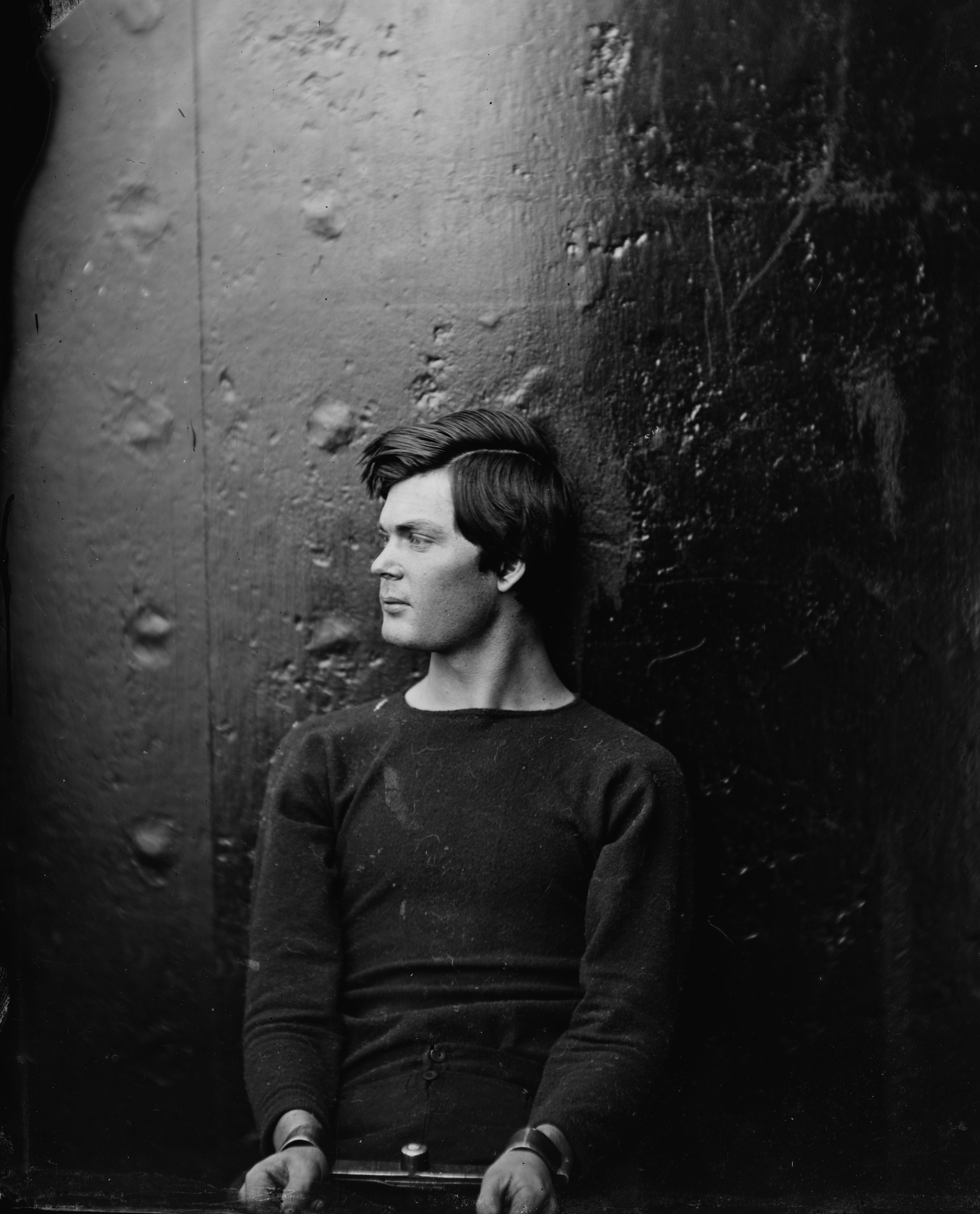 Lewis Powell (AKA Lewis Payne) at the Washington Navy Yard, District of Columbia. Powell, wearing an issued navy shirt, is seated and manacled aboard a prison barge. Powell attempted to assassinate U.S. Secretary of State William Seward on April 14, 1865.